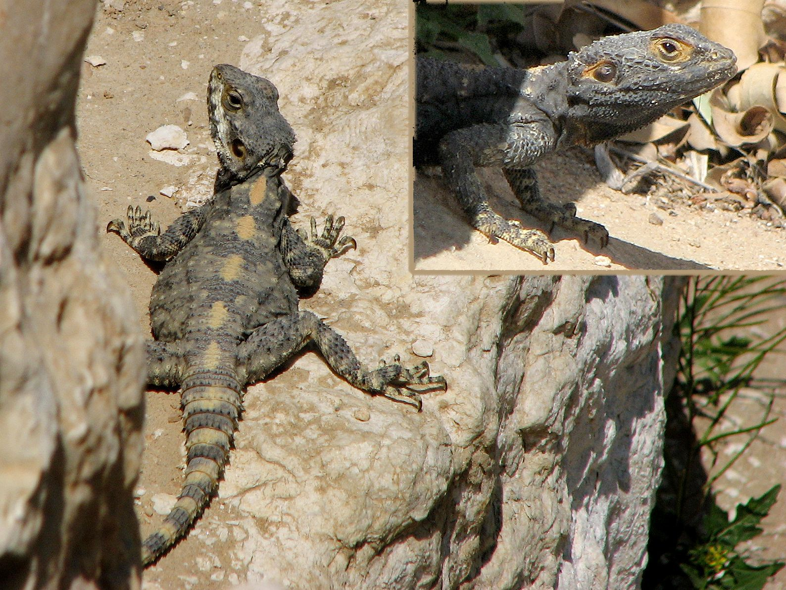 Roughtail Rock Agama. The photo was taken in southern Israel, in Negev desert.